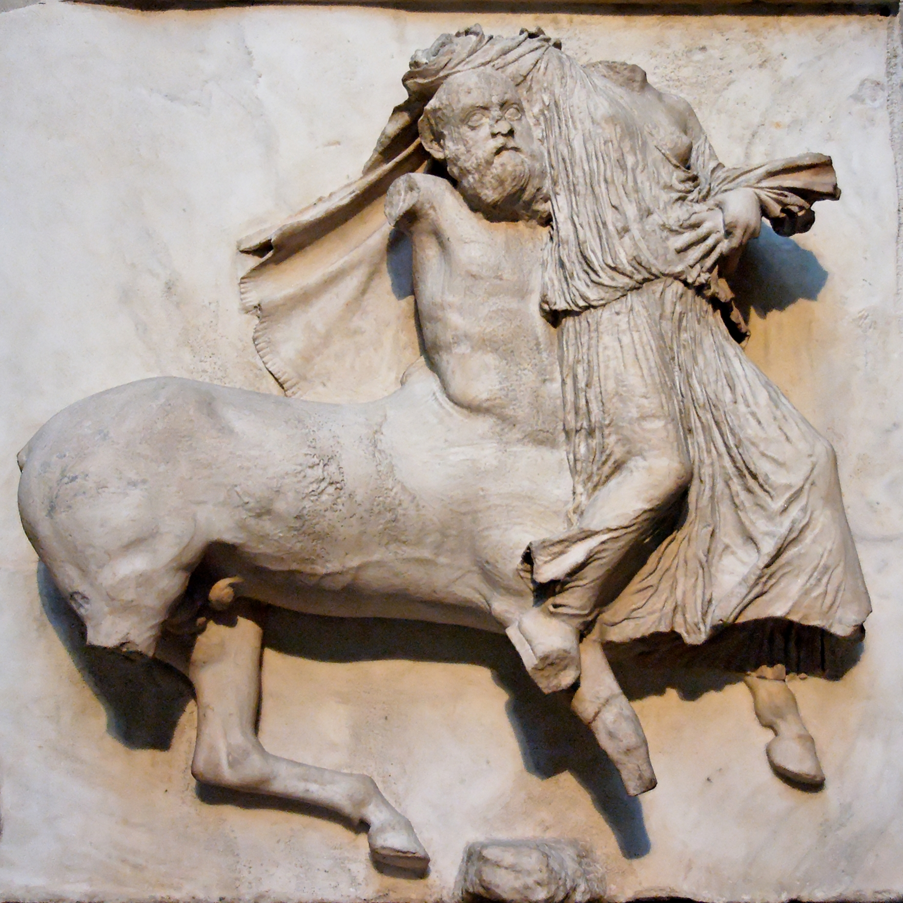 Centaur raping a Lapith woman. South Metope 29, Parthenon, ca. 447–433 BC.